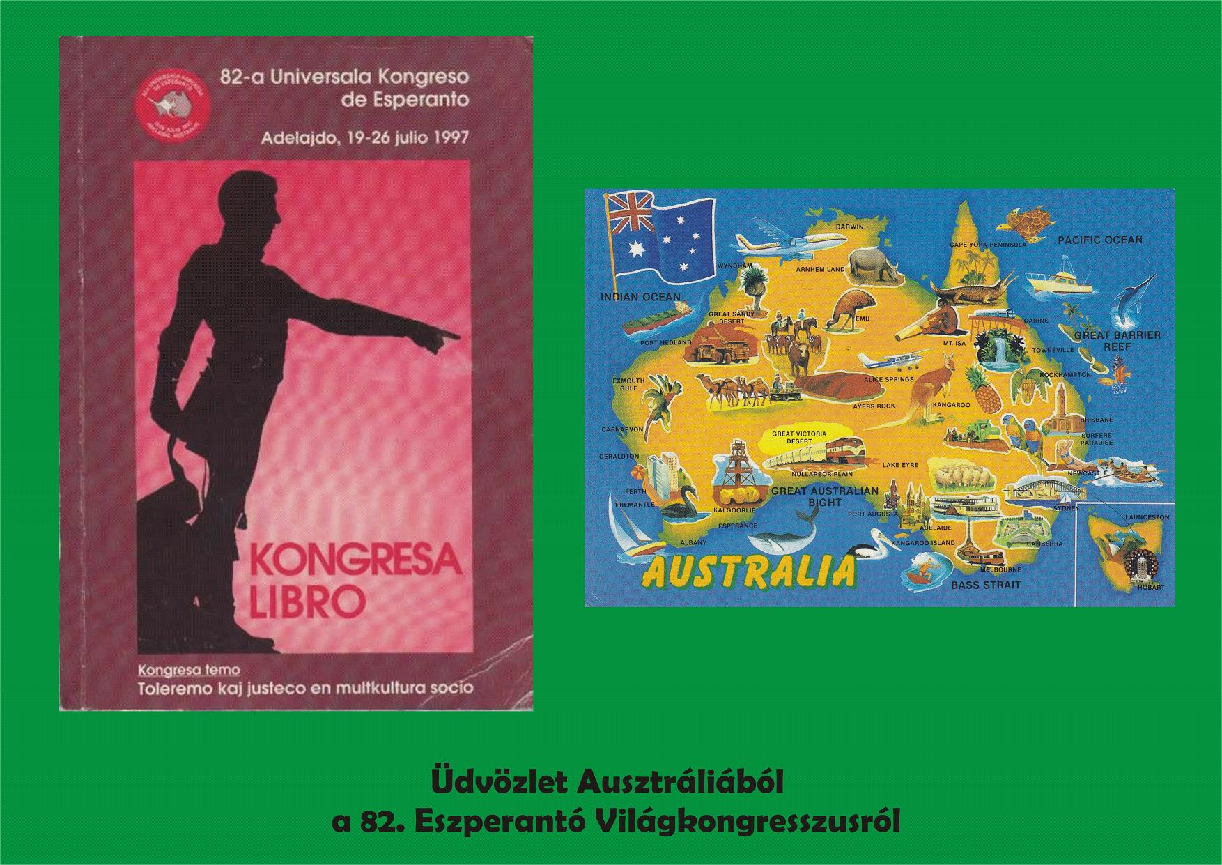 82nd International Esperanto Congress in Adelaide, Australia 1997